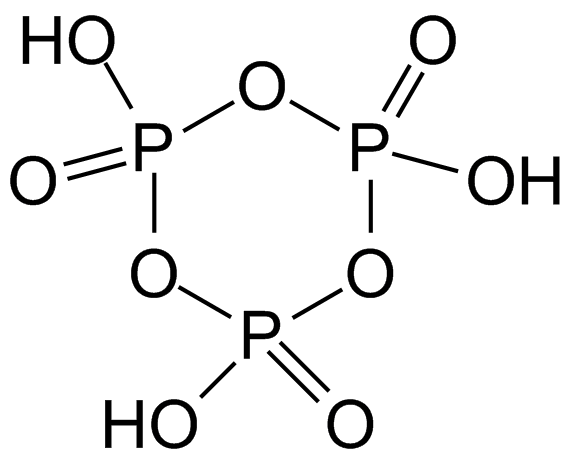 Trimetaphosphoric acid (cyclo-triphosphoric acid)